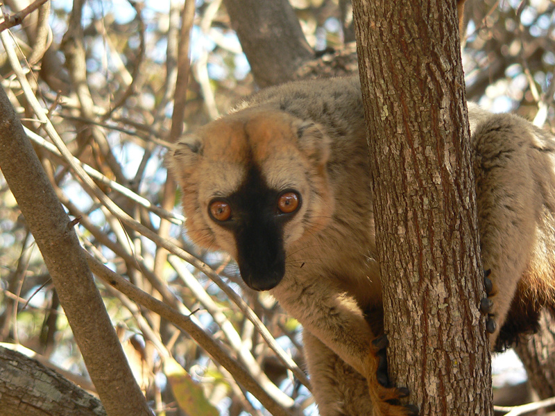 Red-fronted Lemur in Madagascar